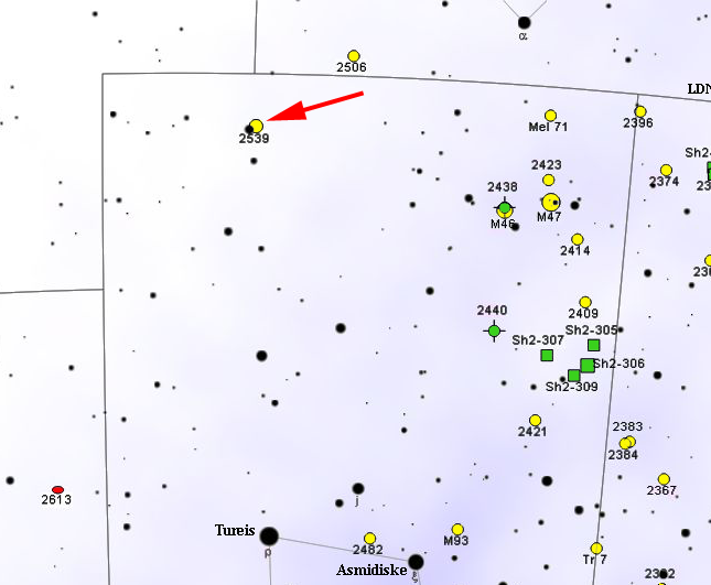 Map of NGC 2539